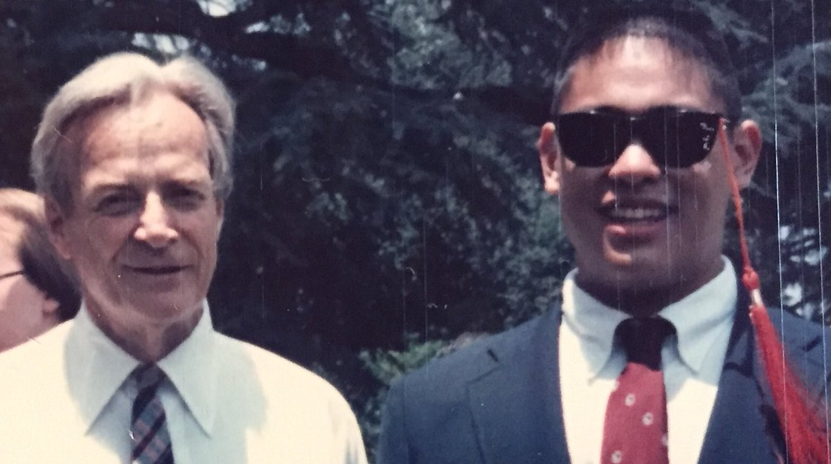 Theoretical physicist, Richard Feynman poses with then 19 year old, Stephen Hsu, at Hsu's Caltech graduation.